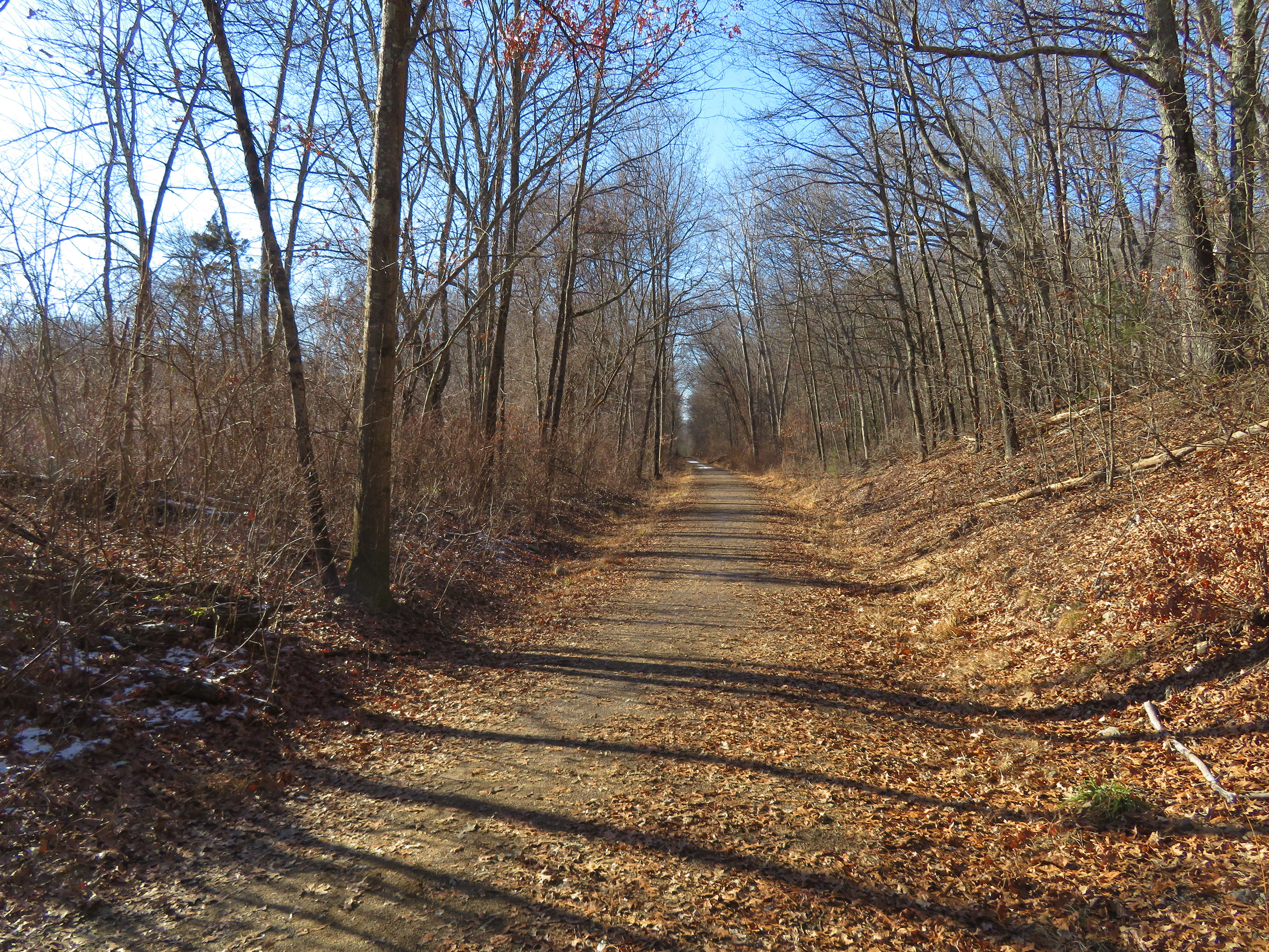 Hop River Trail in Coventry, Connecticut in December 2018